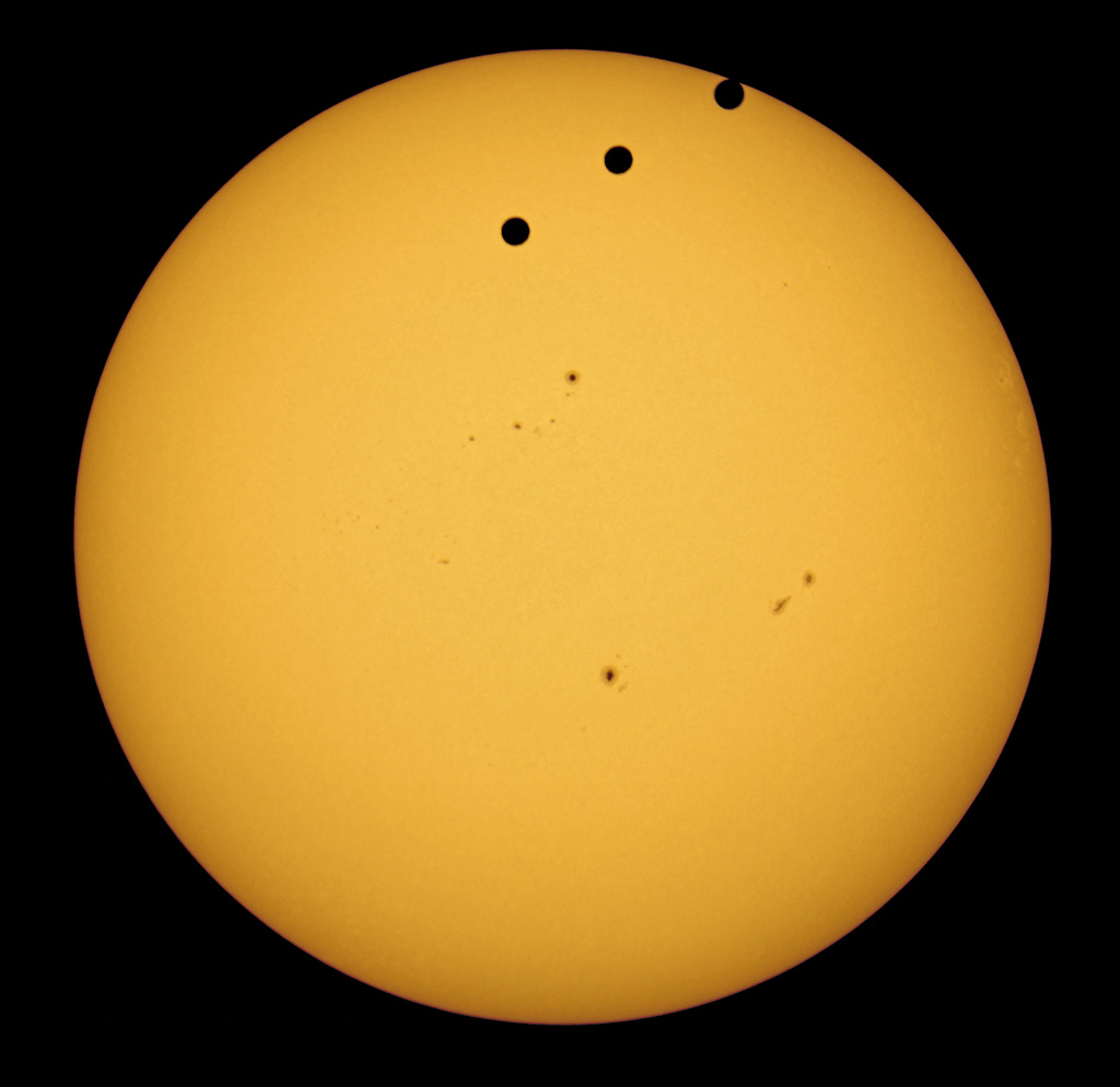 Transit of venus pictured from Amman, Jordan. Details: Celestron telescope 9.5 inch, Canon 600D camera, solar filter of 0,001% transparency, focal length 6,3/f. Combination of three different exposures.